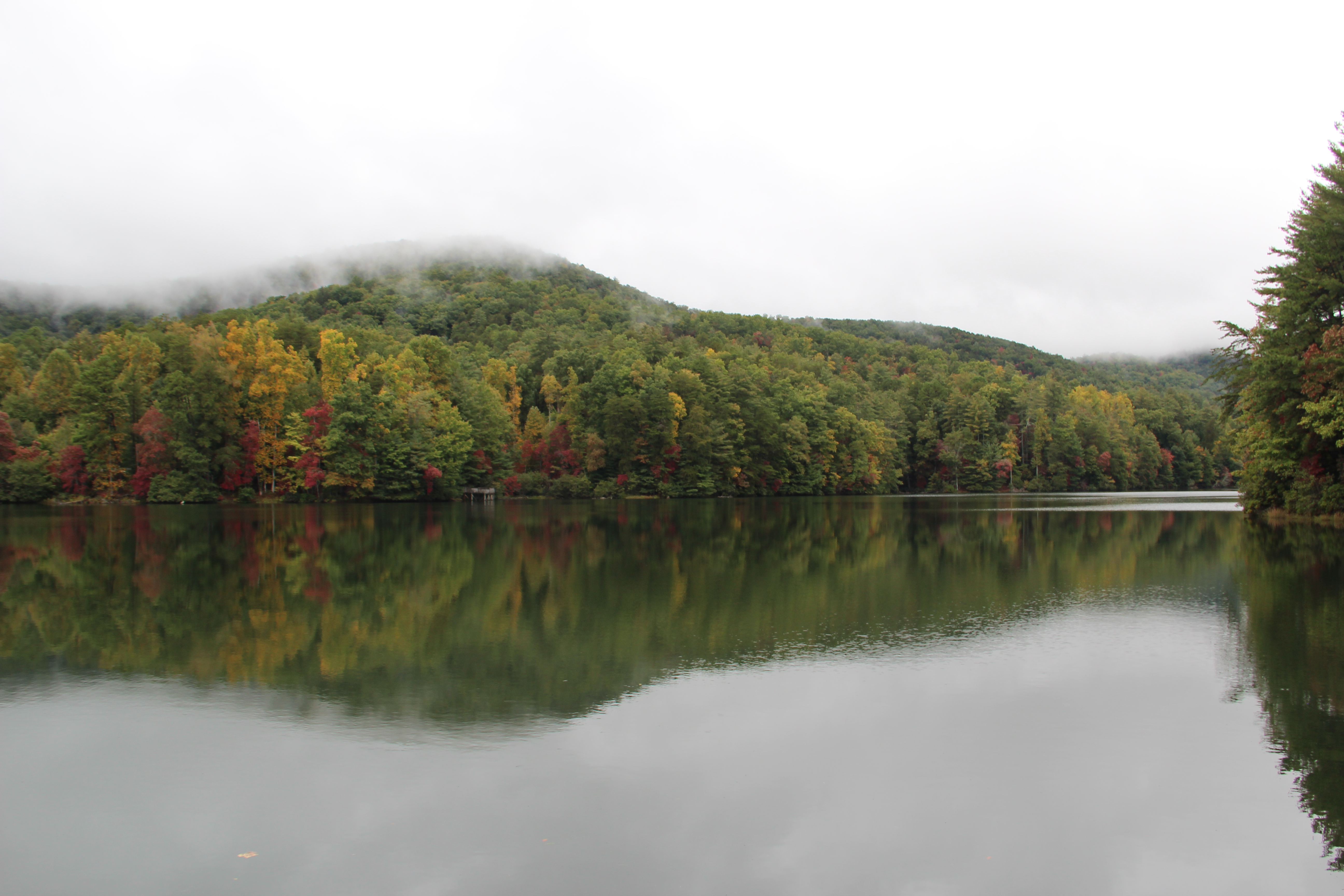 Unicoi State Park lake